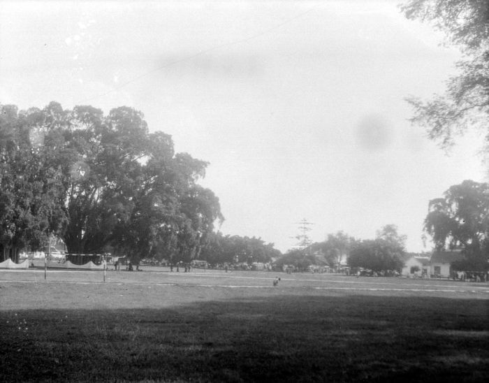 Alun-alun with waringin trees and soccer field